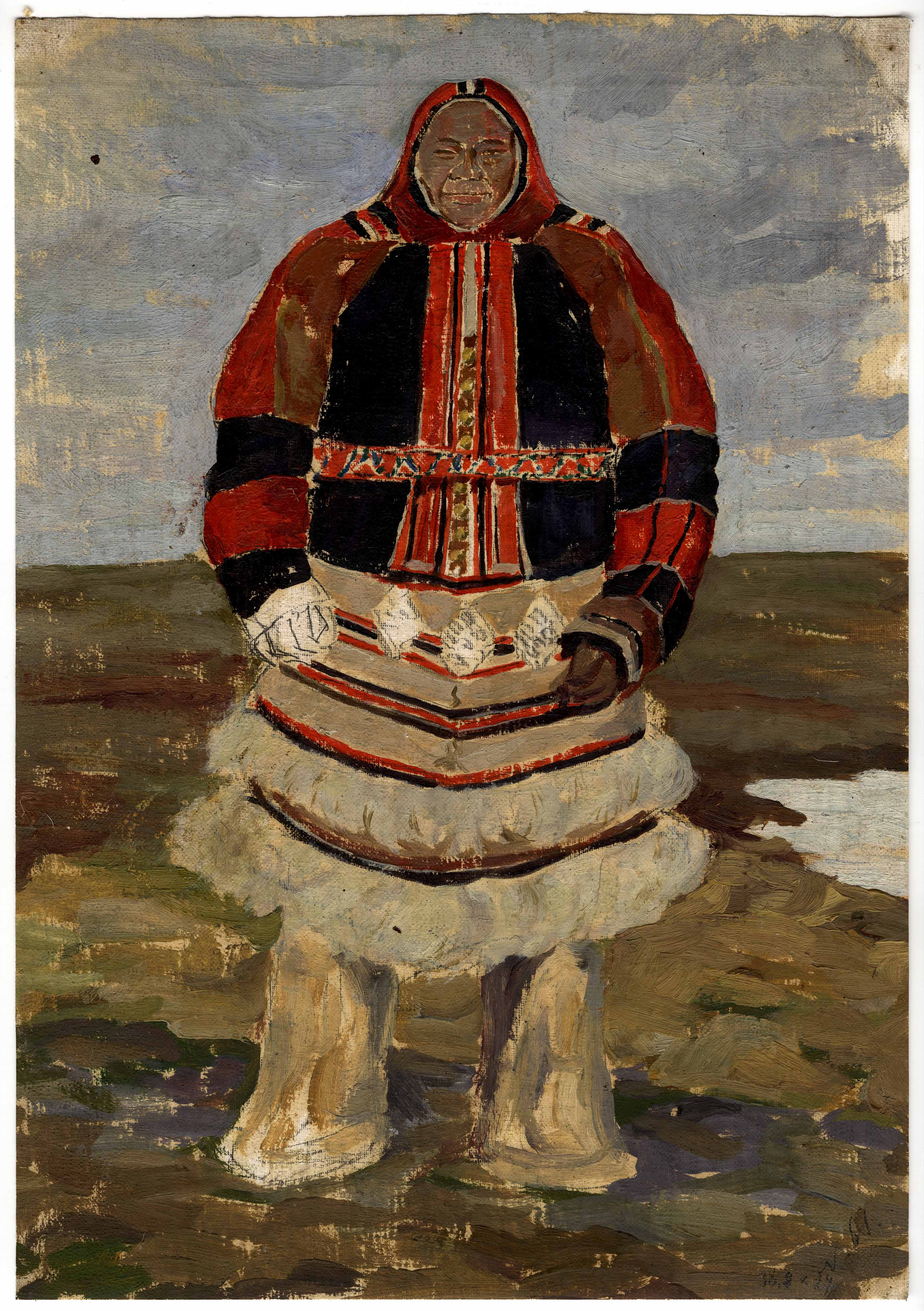 Cloth malitsa [jumper] of Avamskie Samoedy